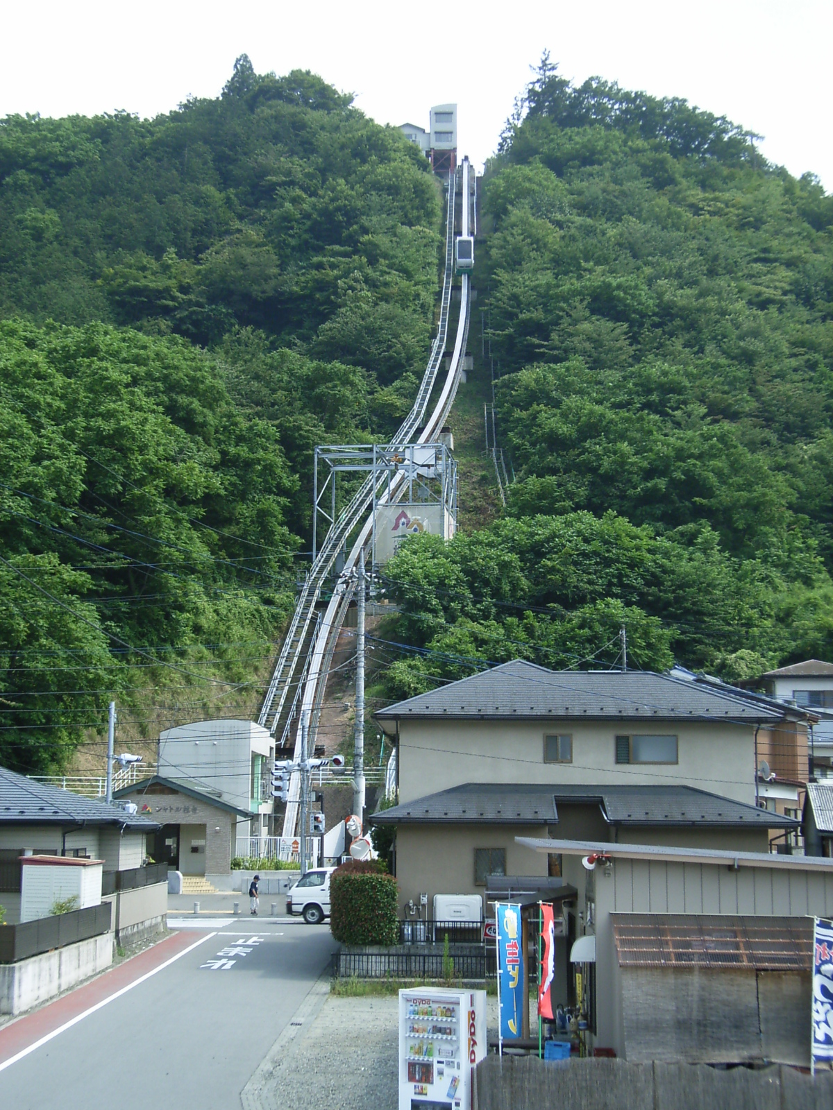 Shuttle Katsuradai. Belt type Transit system by Magnet. Ōtsuki, Yamanashi prefecture, Japan.